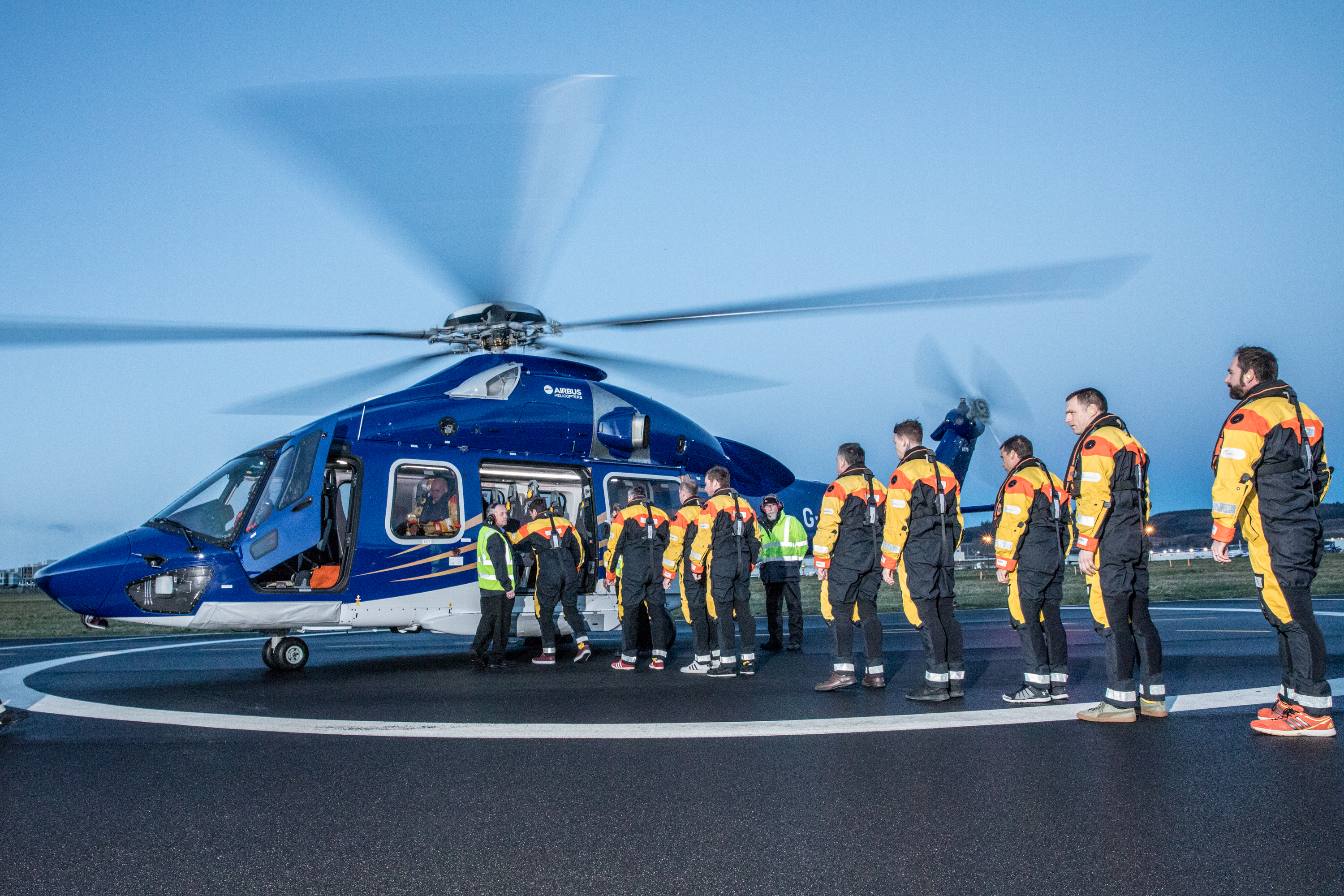 Passengers boarding a Babcock H175 at Aberdeen airport